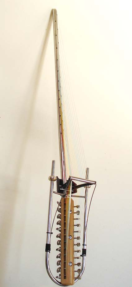 Electric double harp invented and patented by Robert Grawi.